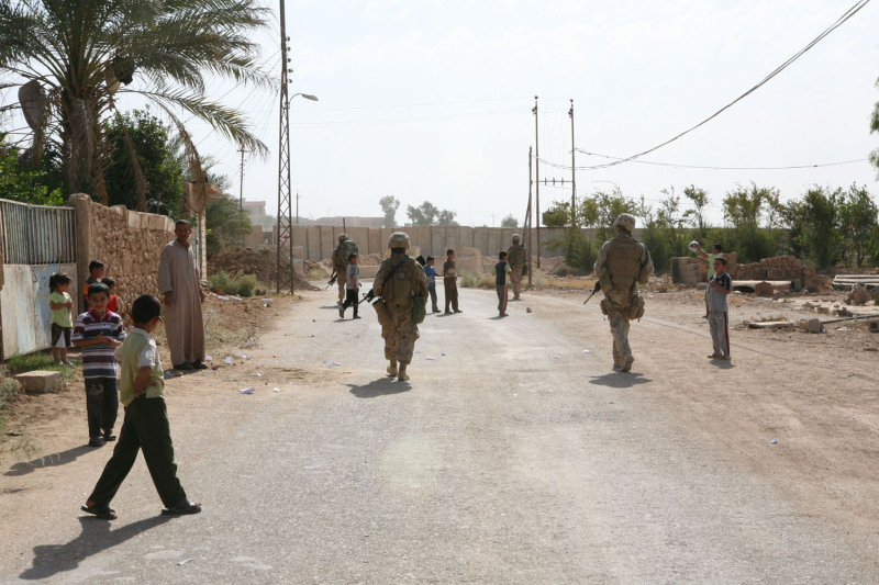 Marines of 3rd LAR patrol in the city of Anah, Iraq.